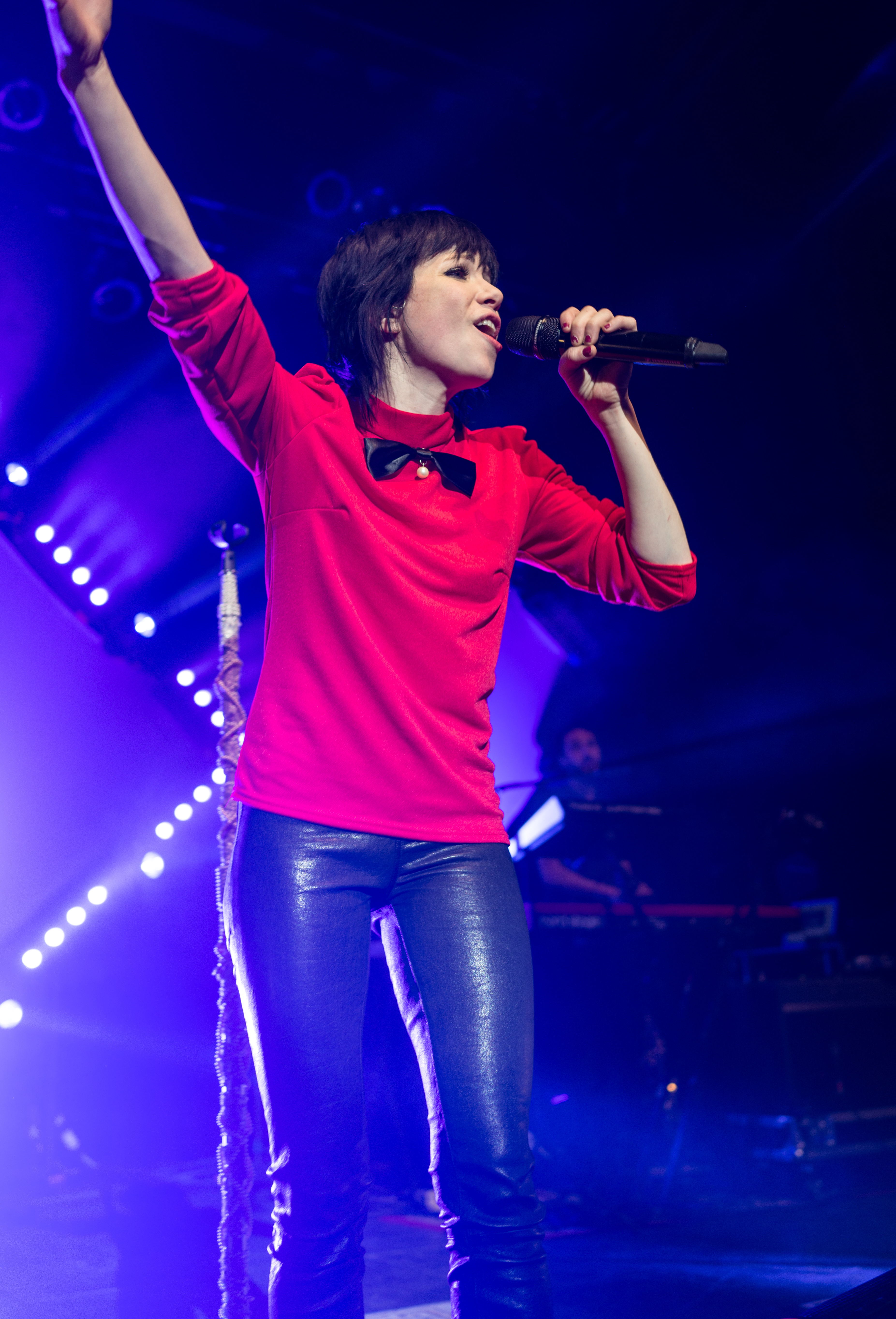 Carly Rae Jepsen performs in Salt Lake City (The Depot) as part of her Gimmie Love Tour